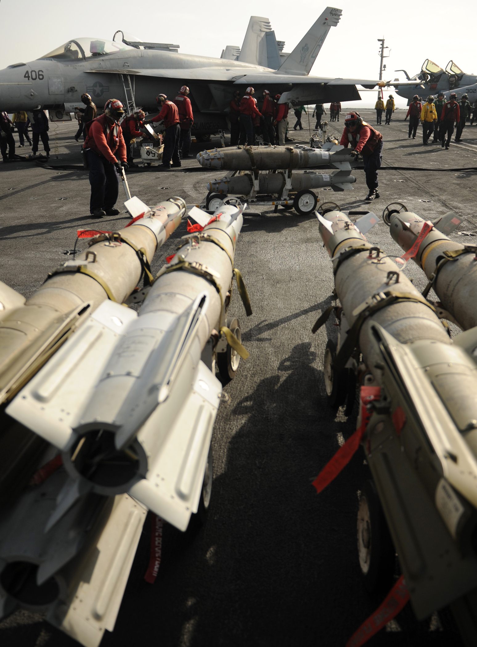 ARABIAN SEA (Sept. 4, 2010) Aviation Ordnanceman Airman Ervin Perez-Zapata, left, and Aviation Ordnanceman 2nd Class Jerel Toney use bomb skids to transport Guided Bomb Unit (GBU) 38. Harry S. Truman is deployed as part of the Truman Carrier Strike Group supporting maritime security operation efforts in the U.S. 5th Fleet area responsibility. (U.S. Navy photo by Mass Communication Specialist Seaman Apprentice Tyler Caswell/Released/Released)